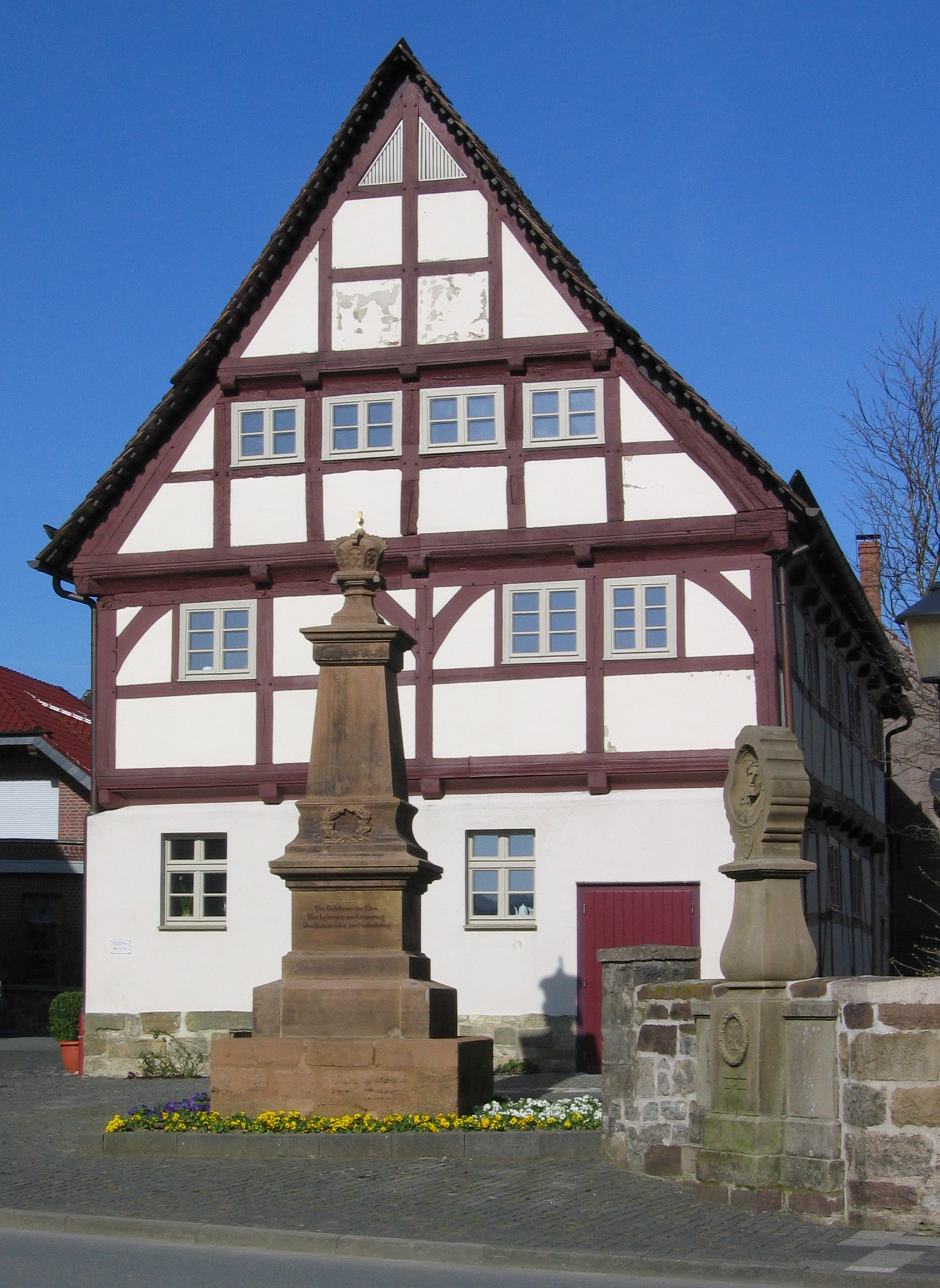 historical townhall in Dringenberg, Bad Driburg, NRW, Deutschland